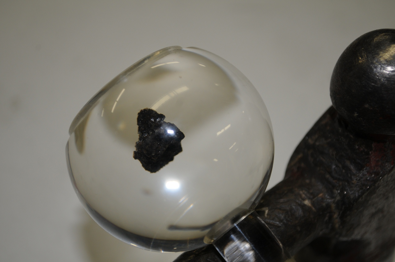 Repository: San Diego Air and Space Museum Archive